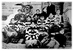 Carroll College Wisconsin football team, circa 1920's